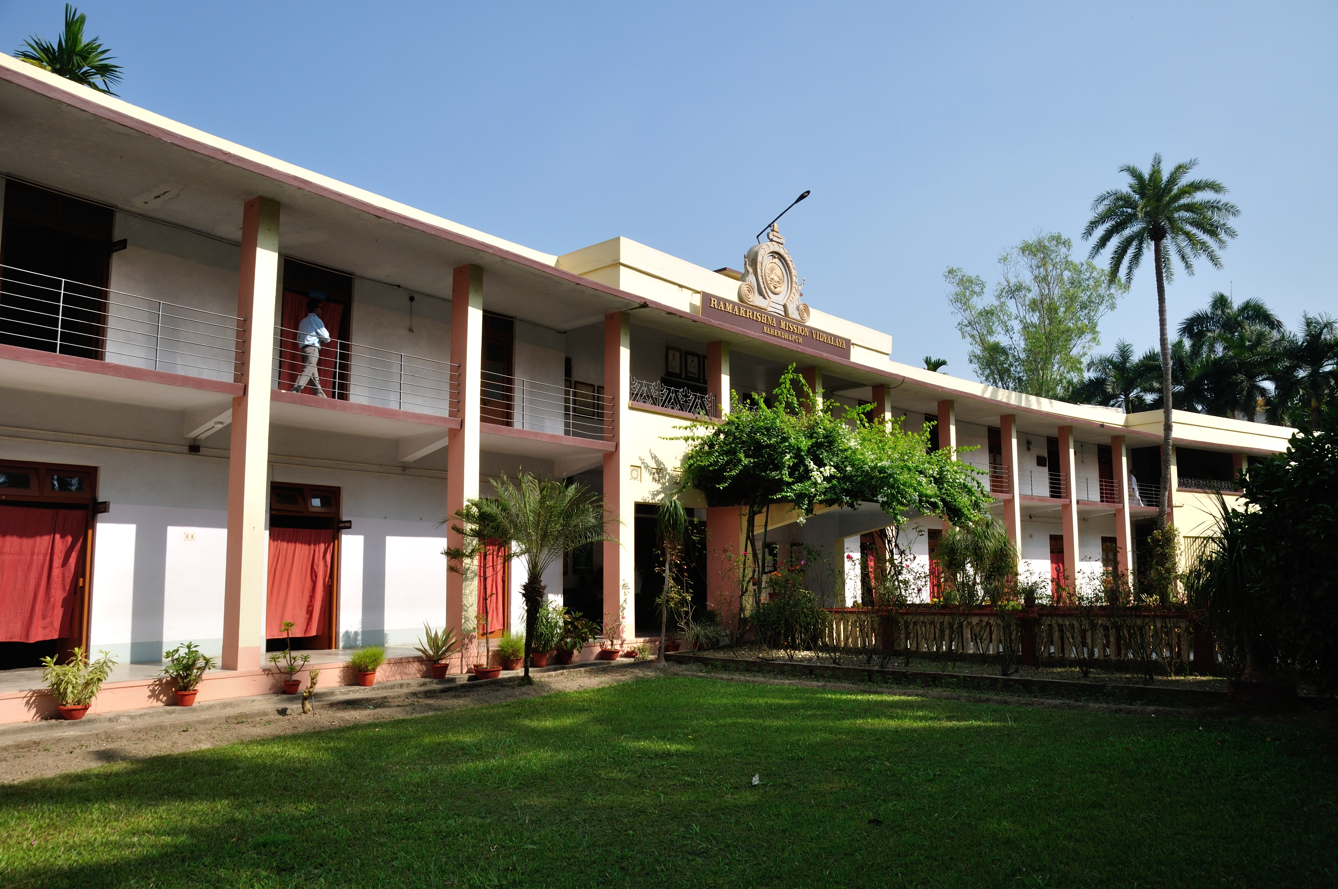 Photographed in Narendrapur, greter Kolkata.